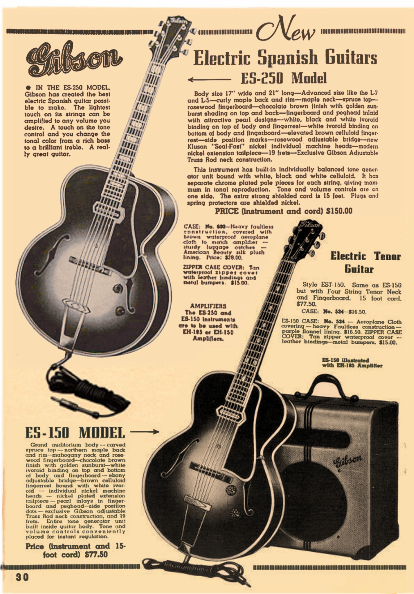 Gibson ES-250, ES-150 with EH-185 amp - magazine advertisement in 1939-1940